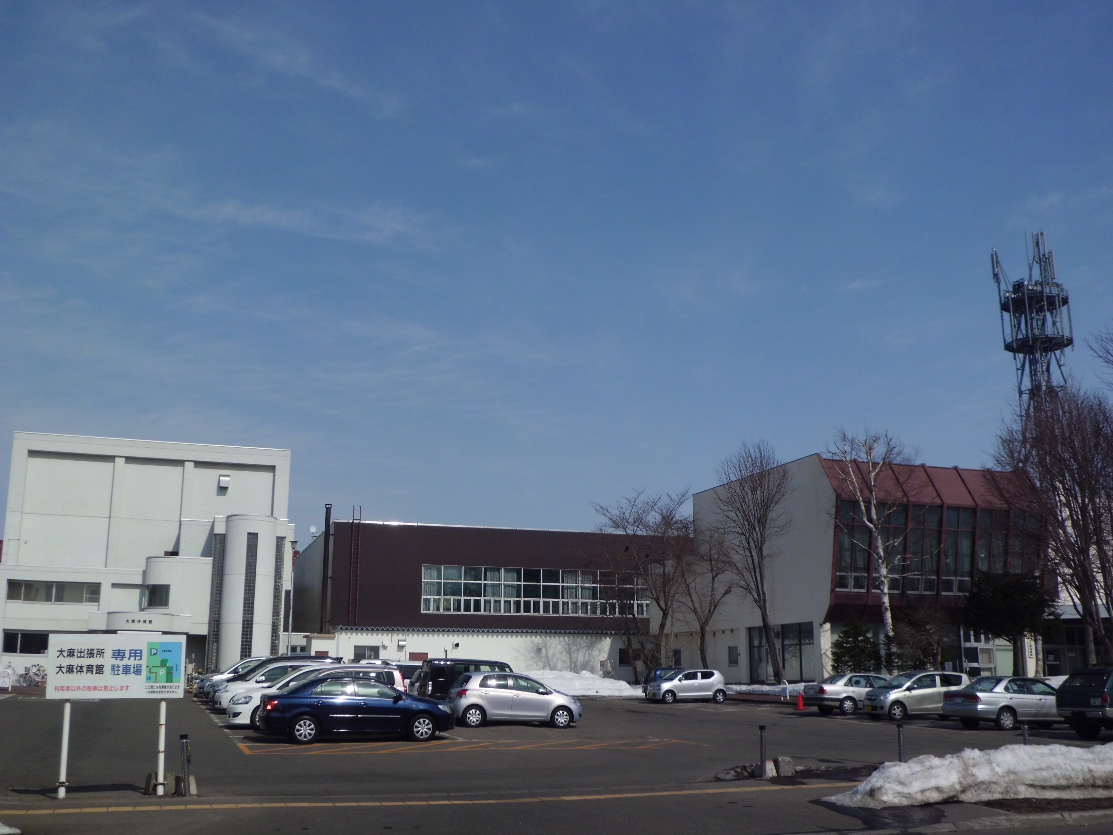 Oasa Gymnasium in Ebetsu, Hokkaido.